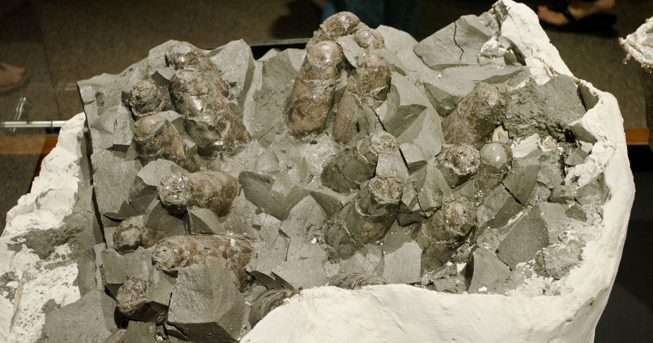 Troodon formosus egg clutch, collected in Teton County, Montana, on display at the Museum of the Rockies in Bozeman, Montana. Troodon was one of the first dinosaurs collected, in 1856. But only a single tooth was found. As other Troodon-like skeletons were discovered over the next 150 years, most were classified as other species or genera. Re-examination and reclassification has led to a more clear understanding of Troodon, although most of the Troodon specimens we know today are sub-species or genera of their own (meaning Troodon is probably a "tribe" and not a species). In 1984, Jack Horner discovered Troodon eggs in Teton County, Montana. Additional clutches have been found over the years and analyzed, too. Troodon built nests out of depressions in the ground, and constructed high rims around them to keep out water. Troodon eggs are teardrop-shaped, and Troodon pushed the tips into the ground and aligned the tops inward. It is suggested that Troodon sat on its eggs to incubate them, and that only males incubated. Probably two eggs were laid at first, and after the space of a day or two an additional pair of eggs were laid. This went on until 16 to 24 eggs were laid. Troodon young probably exited the nest immediately, and there was no raising of young by adults.